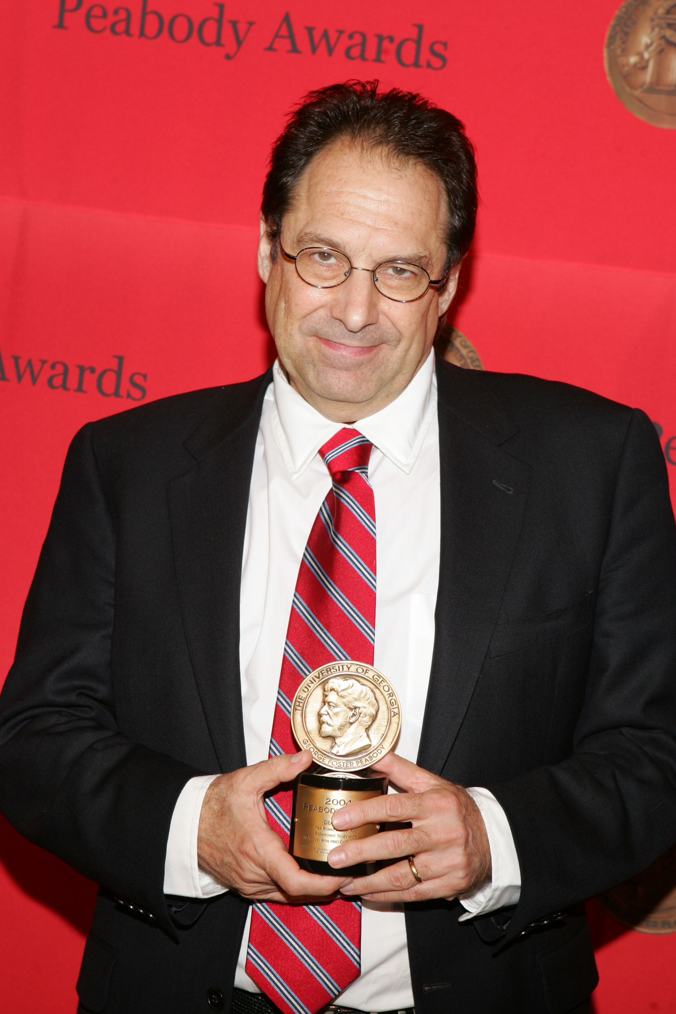 64th Annual Peabody Awards Luncheon Waldorf=Astoria Hotel New York, NY USA May 16, 2005